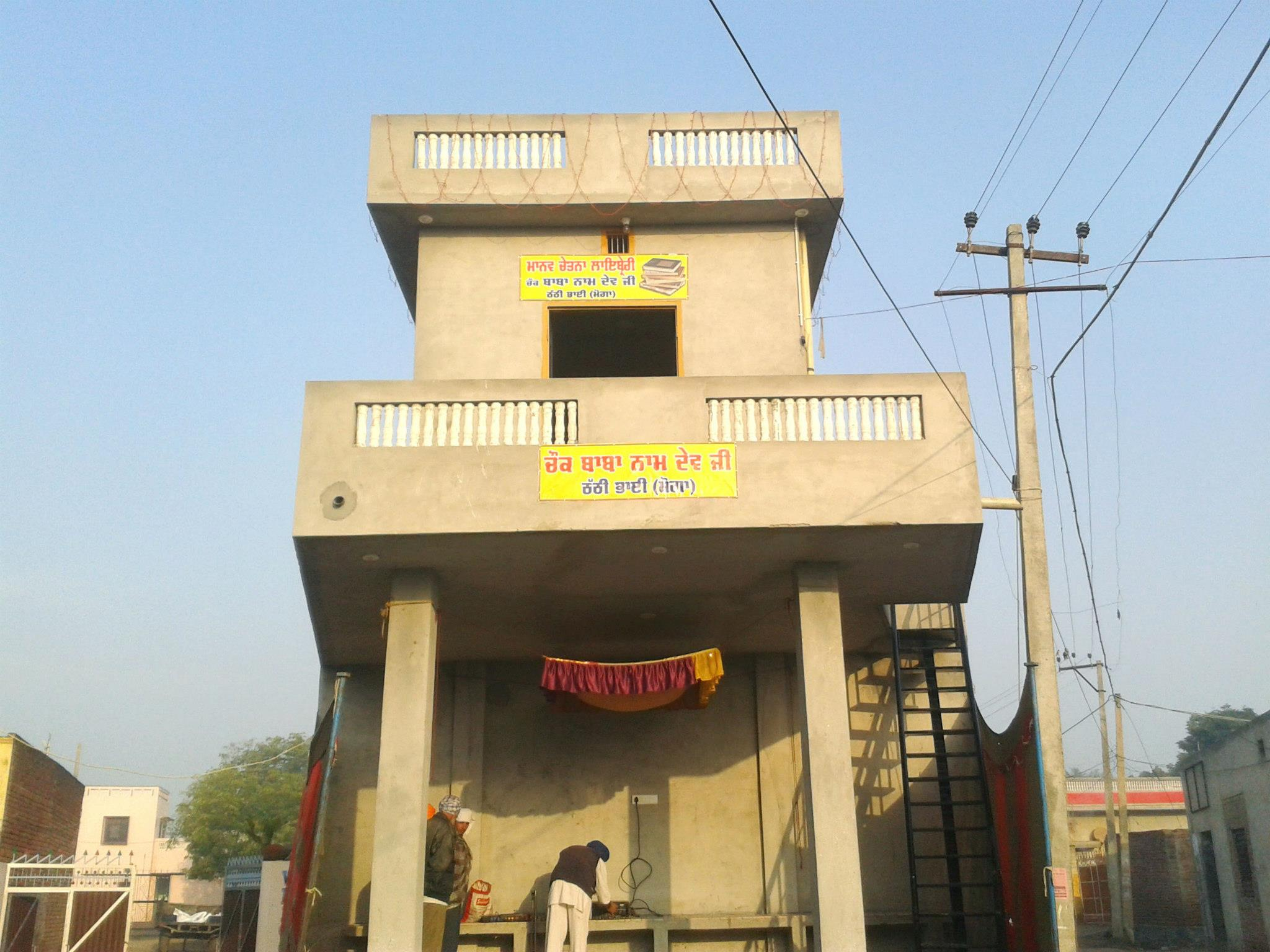 Public Library opened by Manav Chetna Social Group in village Thathi Bhai,Moga